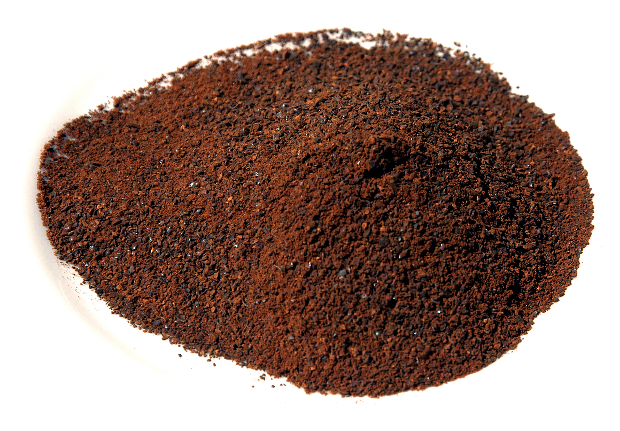 The seeds of many Acacia species are edible. The seed of the Elegant Wattle (Acacia victoriae) is regarded by many as the food industry 'standard'. However a number of other species are commonly traded, or of interest, as food. These include Acacia colei, A. Coriacea , Golden Wattle (A. pycnantha), Sandplain Wattle (A. murrayana), Silver Wattle (A. retinodes) and Coastal Wattle (A. sophorae). After roasting, the flavour is commonly described as 'nutty', with variations in taste between species. Wattle seed are high in protein and have a low glycaemic index and they could be included in diabetic and other specialty diets. CSIRO is working with Aboriginal communities and Australian industry to help develop the bush foods industry. CSIRO is seeking ways to lower production costs and increase product quality in order to meet the growing demand for a variety of food ingredients from Australian native plants, seeds and fruits.